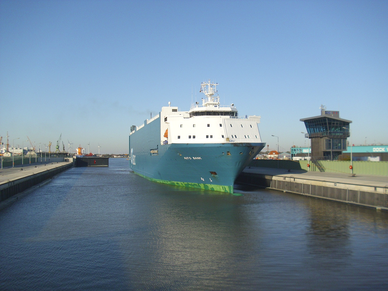 The car carrier Auto Bank in the Kaiserschleuse ship lock in Bremerhaven, Germany